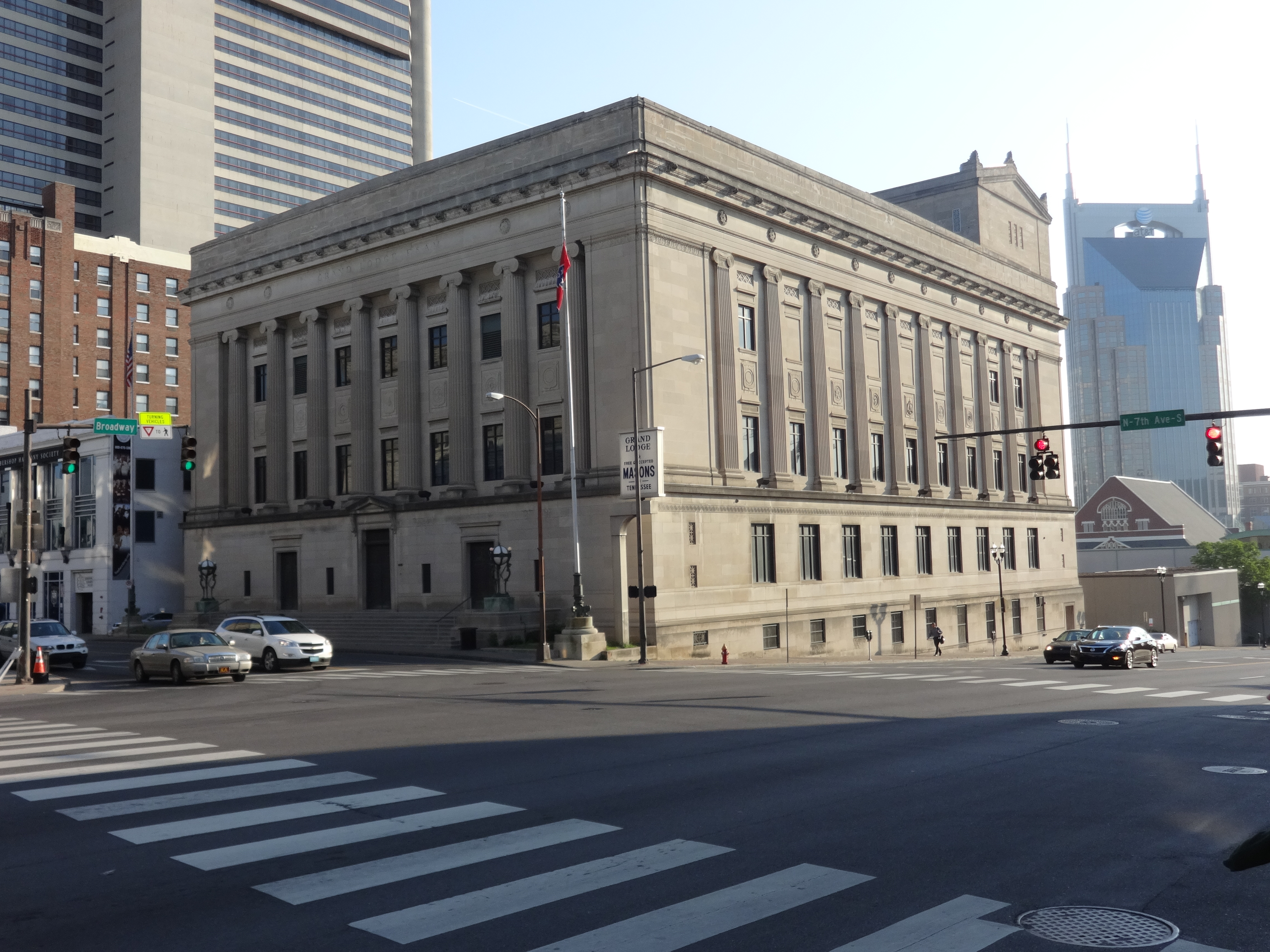 Grand lodge of Tennessee, 100 7th Ave N, Nashville, Davidson County, Tennessee